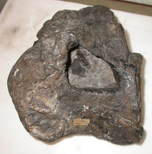 BMNH R28632, the lectotype vertebra of Ornithopsis hulkei.